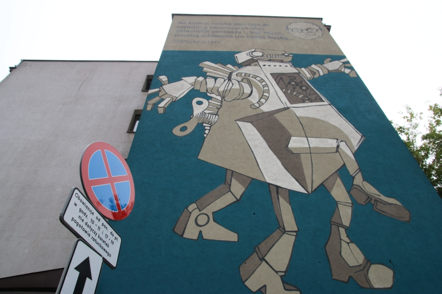 Kraków - "Pomyślː Literaturaǃ" mural by Filip Kuźniarz, 24 Józefińska Street